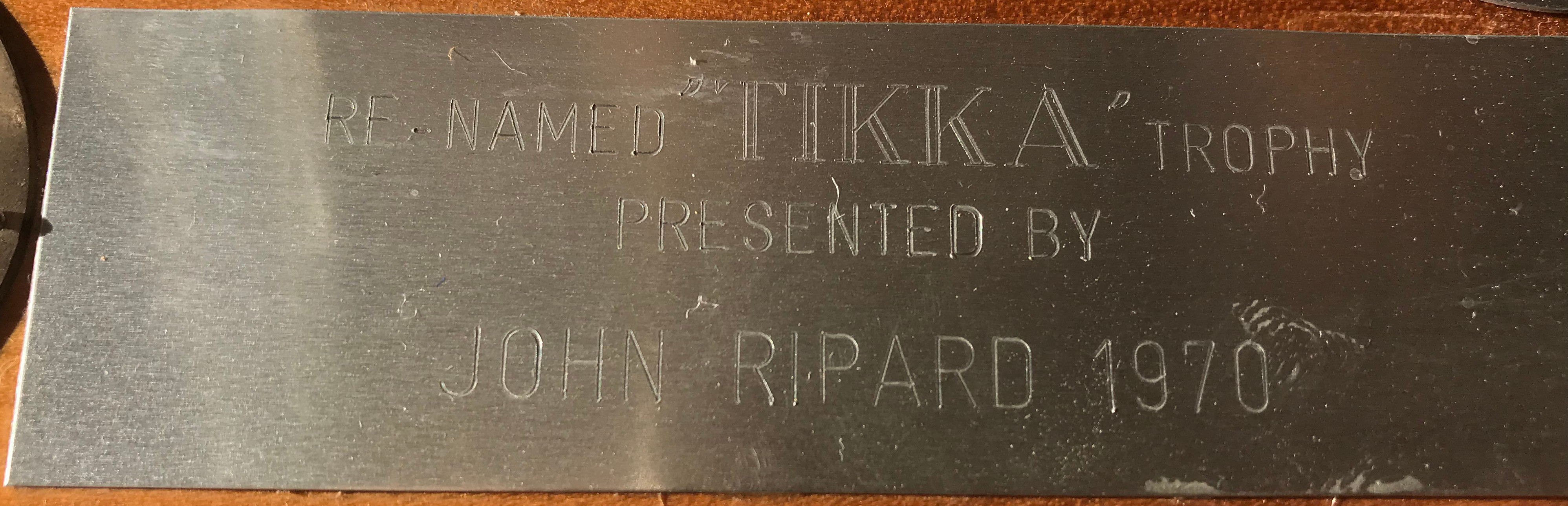 Tikka Trophy